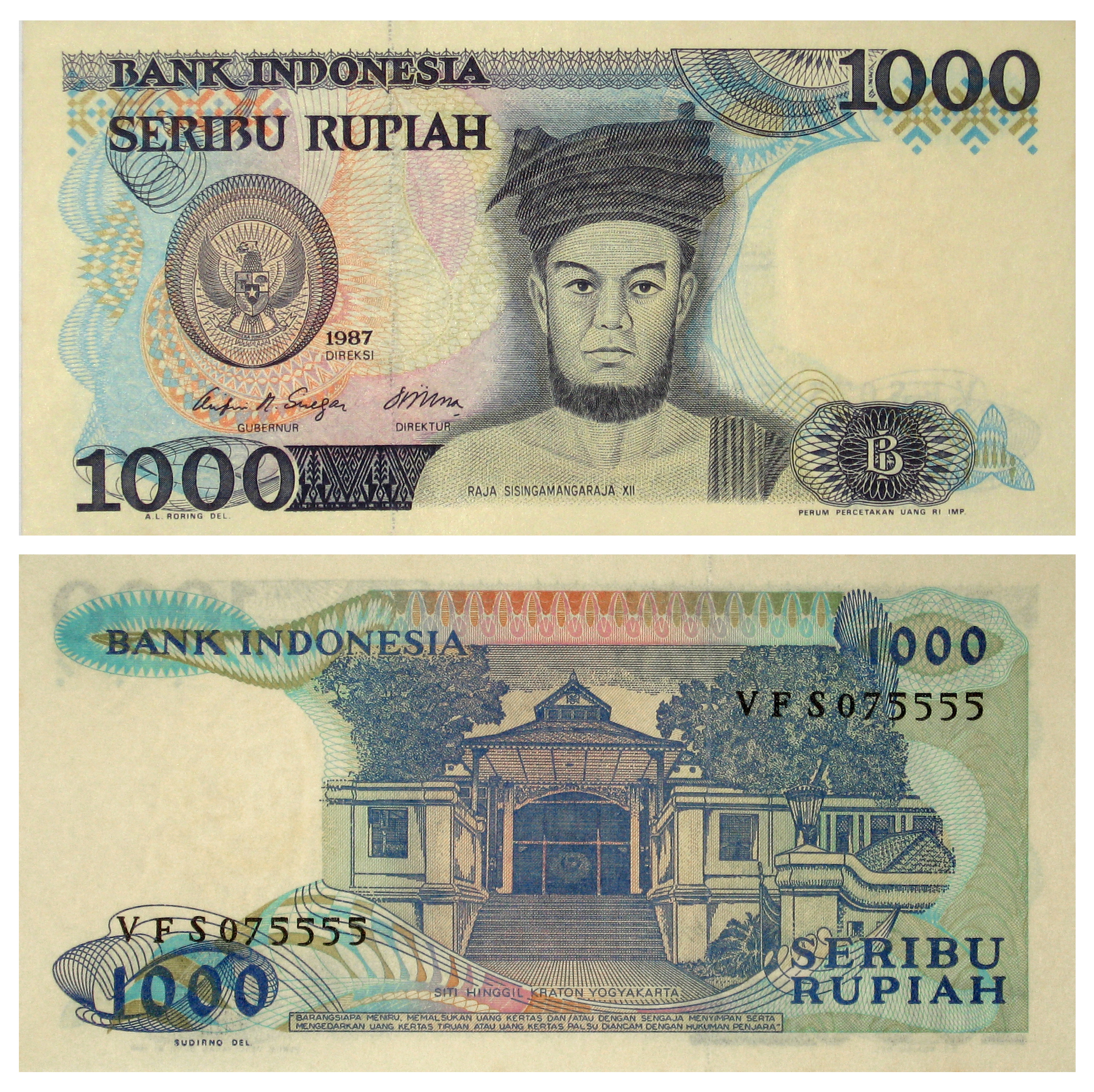 Obverse and reverse of the 1,000 rupiah banknote (1987 series), depicting Sisingamangaraja XII